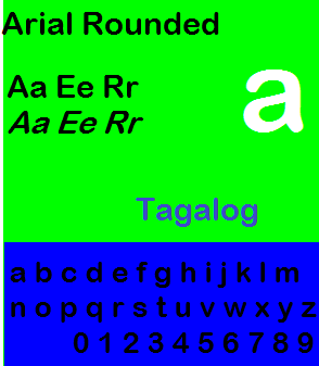 The specimen of Arial Rounded